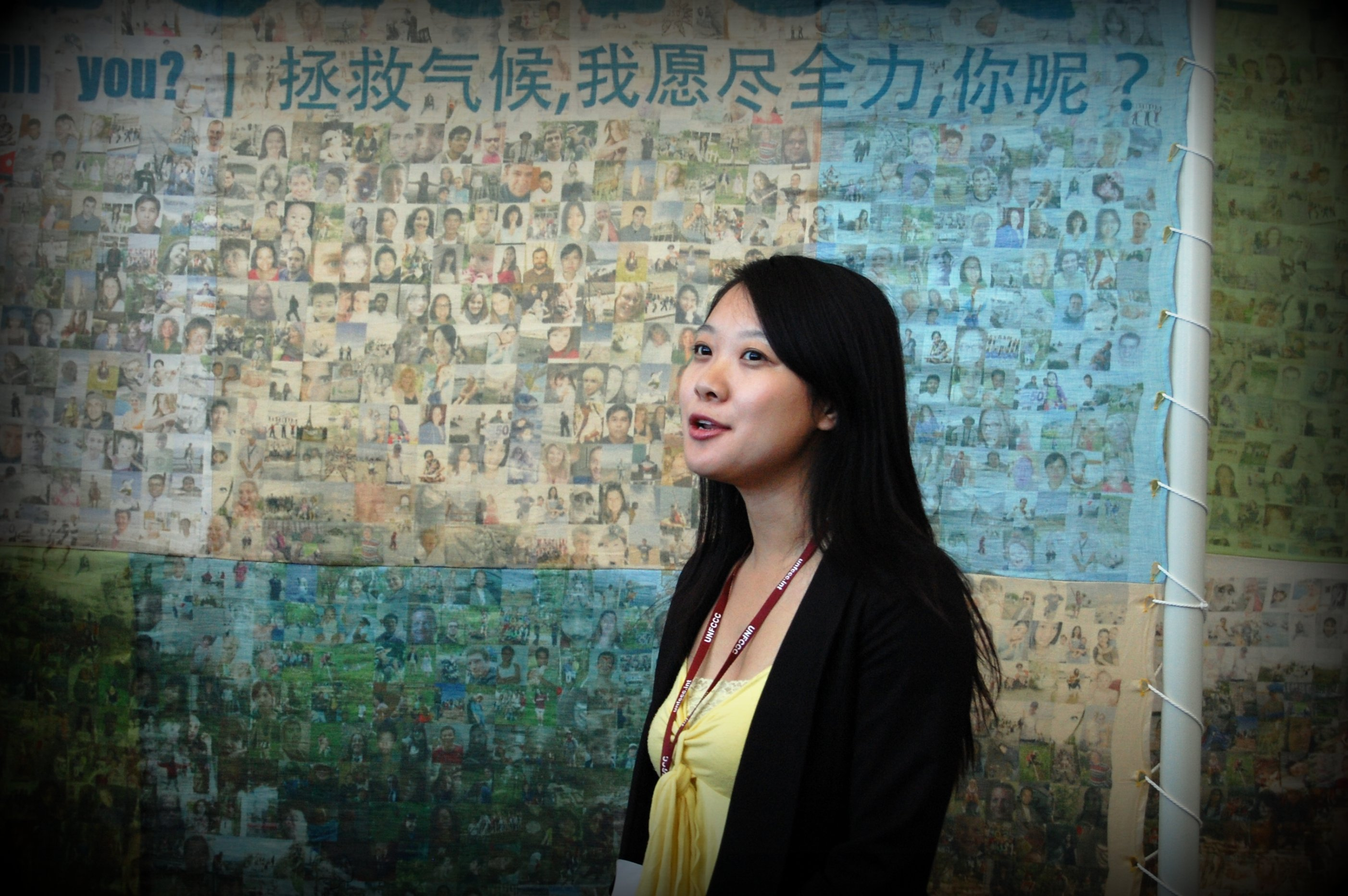 The Great Climate Wall of China in the background is a mosaic of the real Great Wall from thousands of snapshot portraits of Chinese citizens delivering a common message: "I will act on climate, will you?". It was created by Joseph Ellis --- a 26-year old American artist who has been residing in China for the last 5 years. The mosaic was presented by Tck Tck Tck , a global campaign of millions of people for a fair, ambitious and binding climate change agreement, during the opening of the United Nations Framework Convention on Climate Change intersessional in Tianjin, China. The lady in the photo was explaining in Chinese what the mosaic is all about (October 2010).